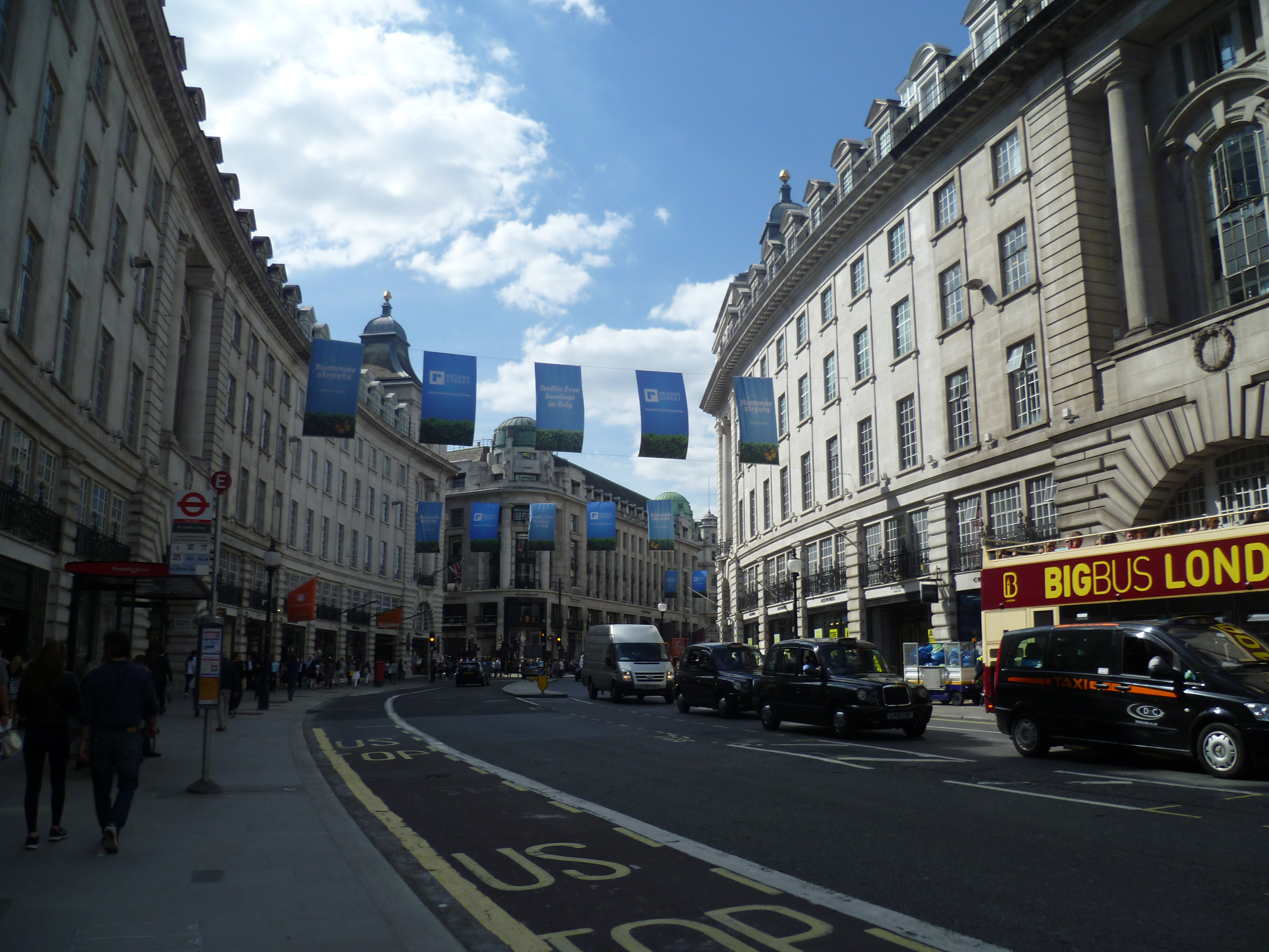 London